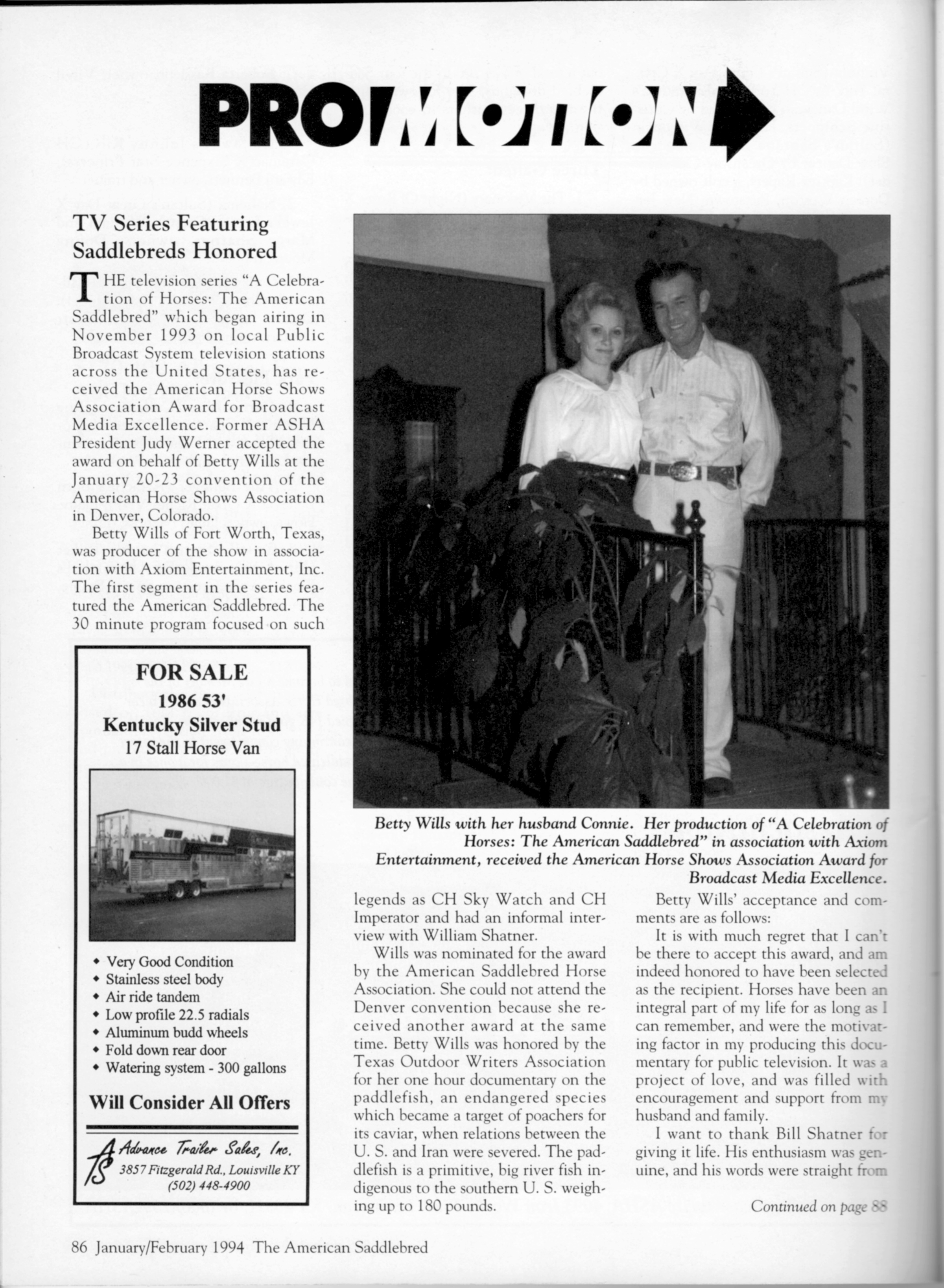 Scanned image of the article, TV Series Featuring Saddlebreds Honored, pg 86, January/February 1994 issue of The American Saddlebred magazine.